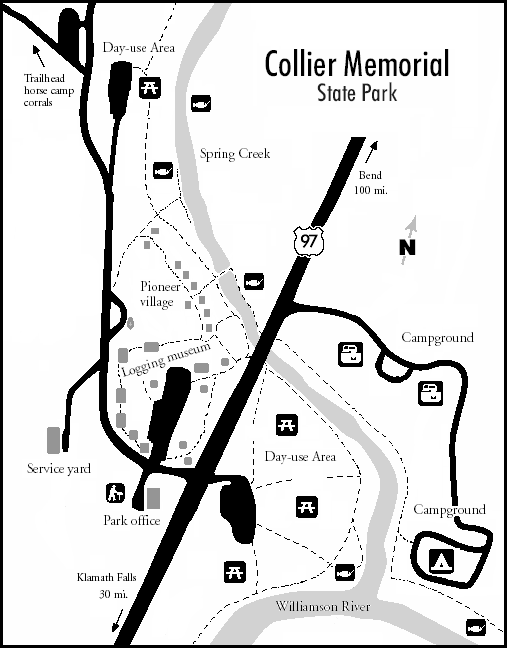 Map of Collier Memorial State Park in southern Oregon